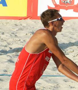 Grand Slam Moscow 2011